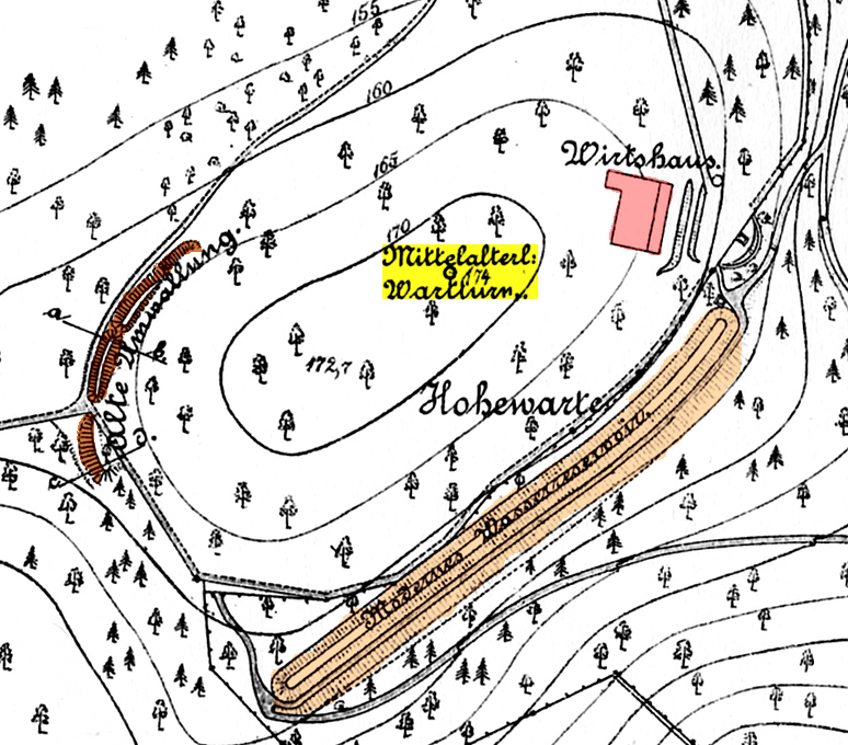 Wall encircling the castle Marienburg near Nordstemmen in Germany